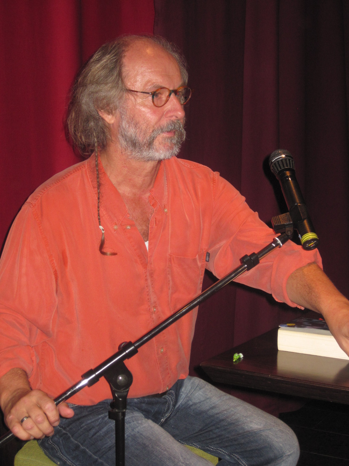 German writer Klaus-Peter Wolf